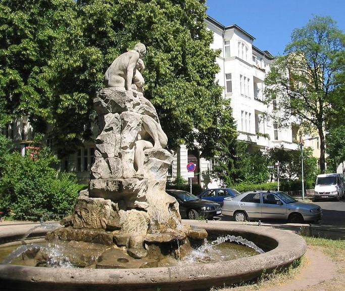 Fountain „Sintflutbrunnen“ (german for „Delugefountain“) at the Perelsplatz in Berlin-Friedenau. Built 1907 according to plans by Paul Aichele for the „Hamburger Platz“ at the Südwestkorso; since 1932 at the Perelsplatz.